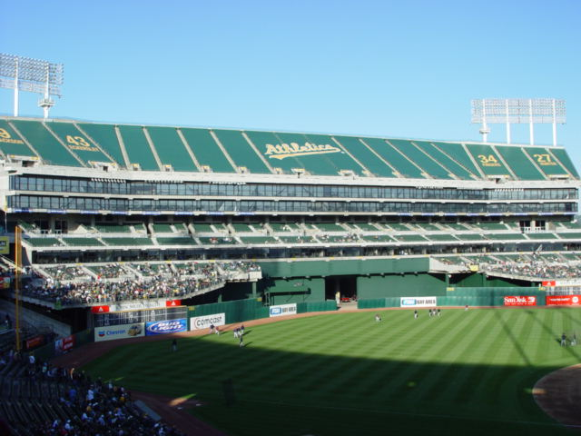 Mount Davis at McAfee Coliseum. Taken at A's/Tigers game 4/18/06. Own work. 05:39, 19 April 2006 . . Dspserpico . . 640×480 (61,758 bytes)